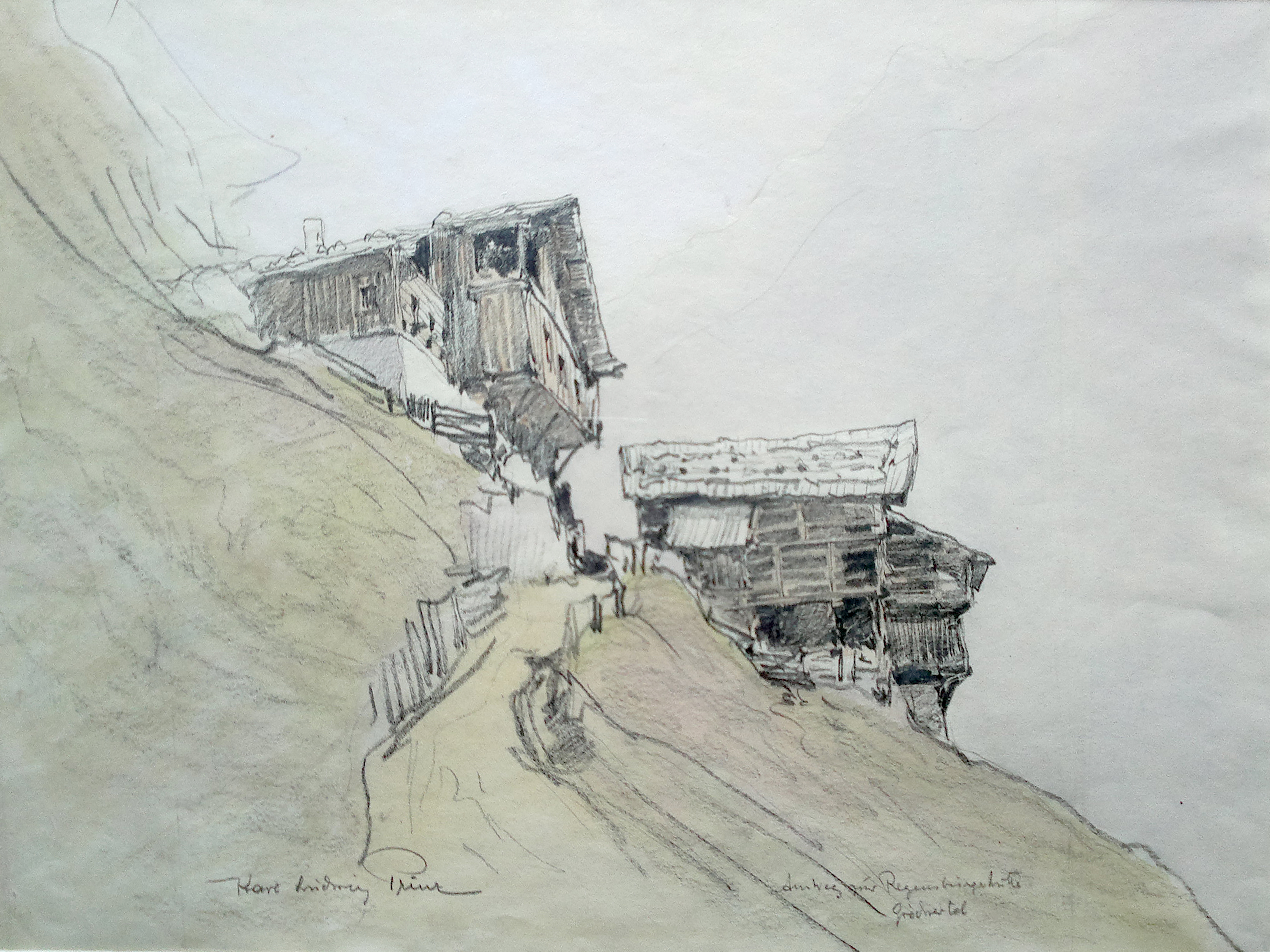 The farmhouse Paratoni (western part) in Gherdëina. Sketch by Karl Ludwig Prinz (1875-1944)